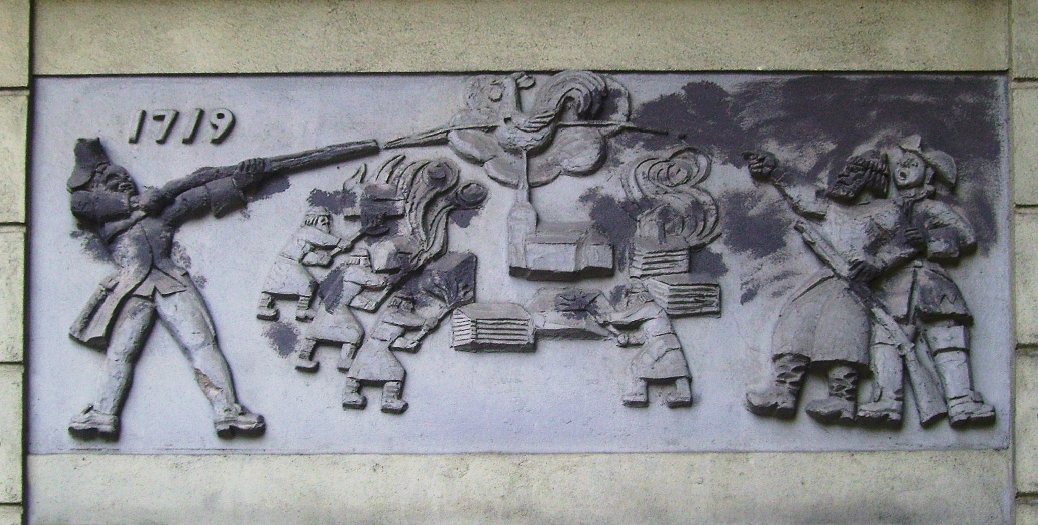 Relief depicting the Russian atrocities 1719, on the facade of a hotel in Södertälje. By Hugo Borgström, 1940.